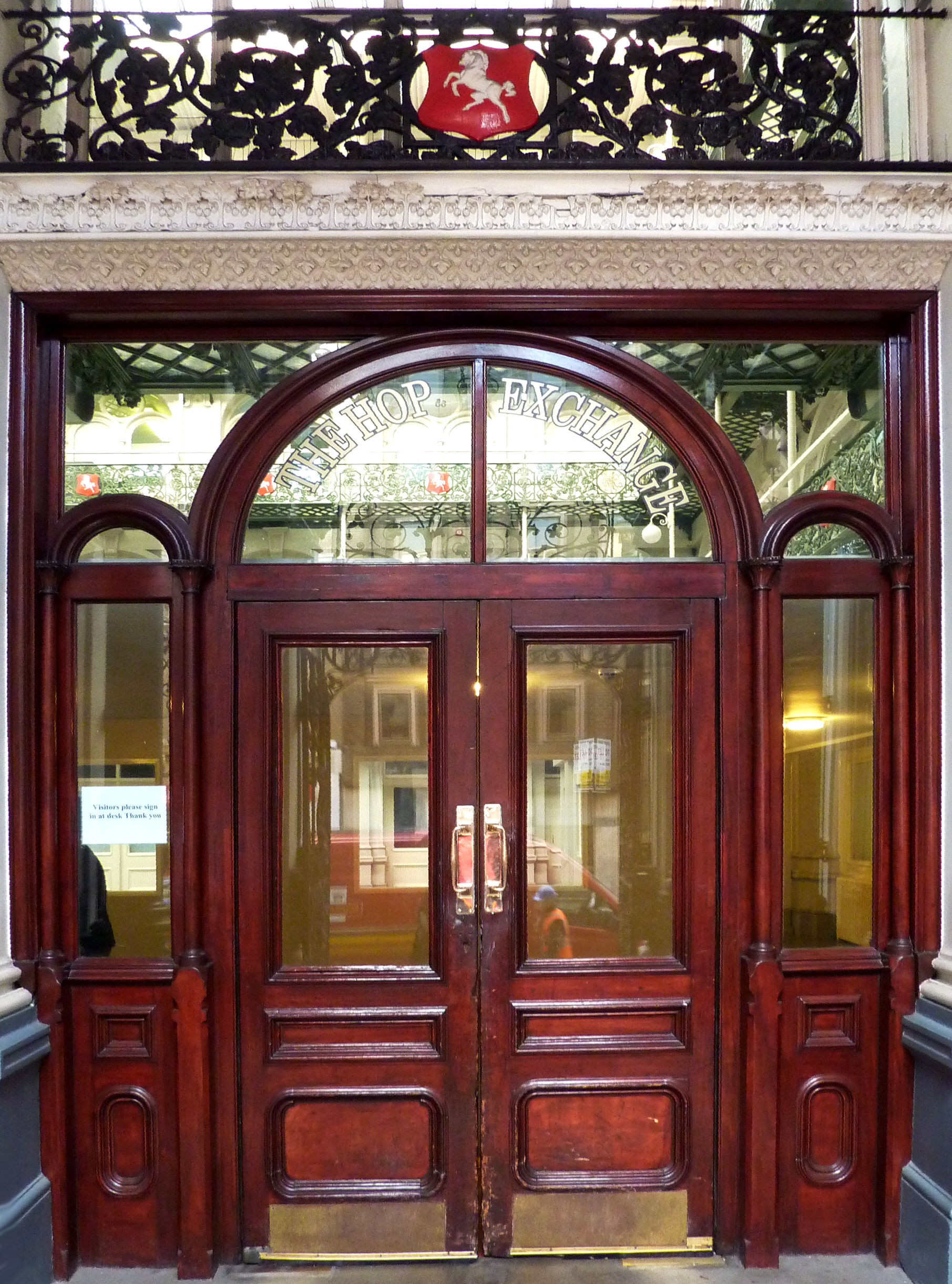 Wooden door, the former HOP EXCHANGE, London, Borough of Southwark.